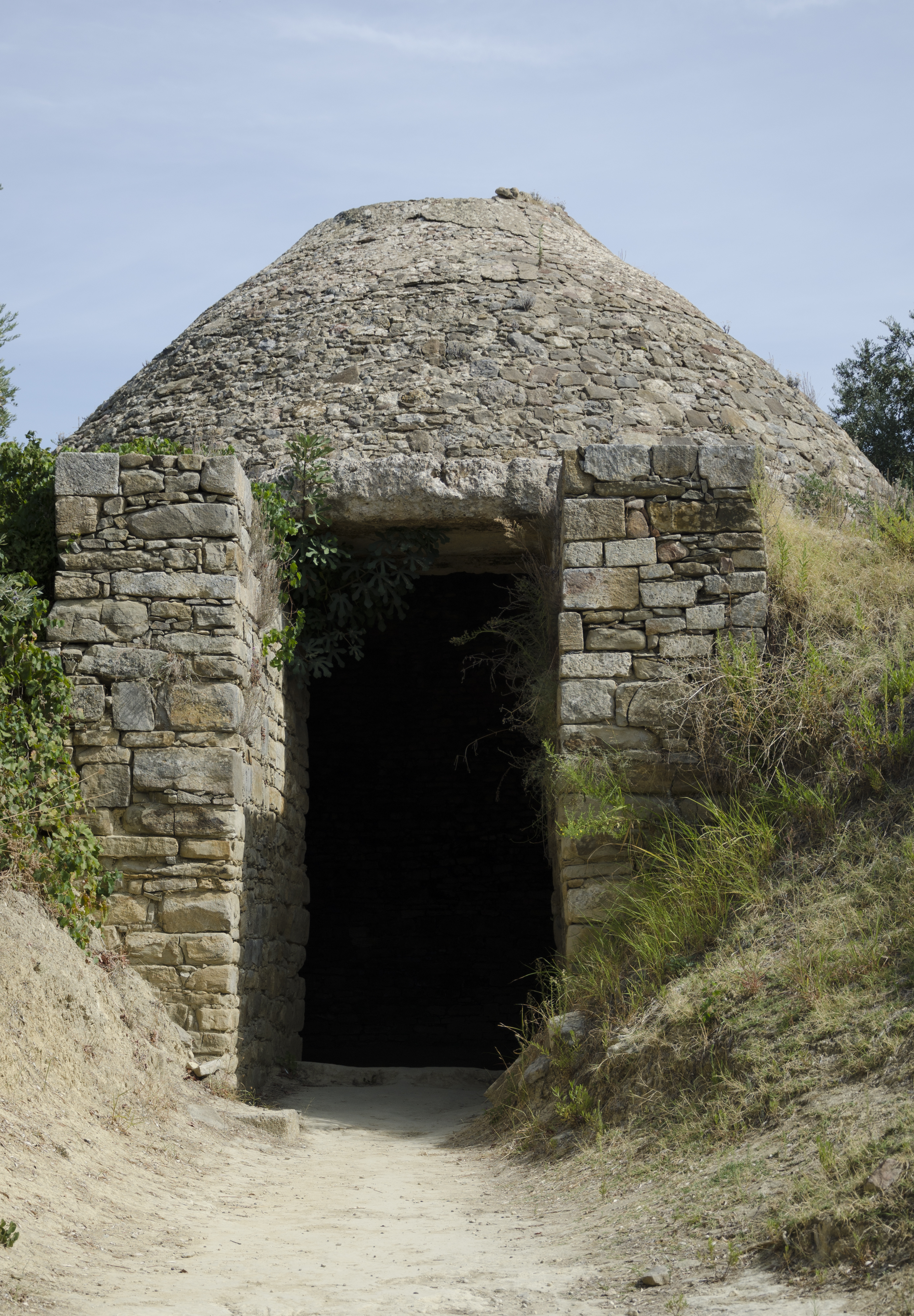 The Mycenaean tomb at the Palace of Nestor site, built ca. 1550-1500 BC